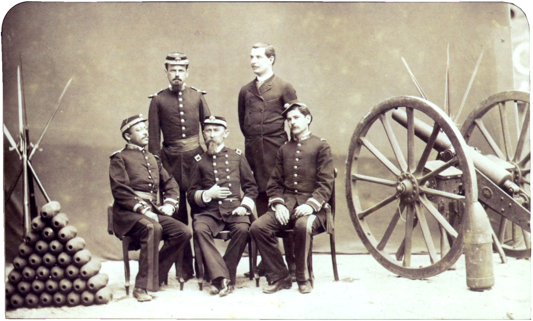 Brazilian officers next to a cannon, 1886.